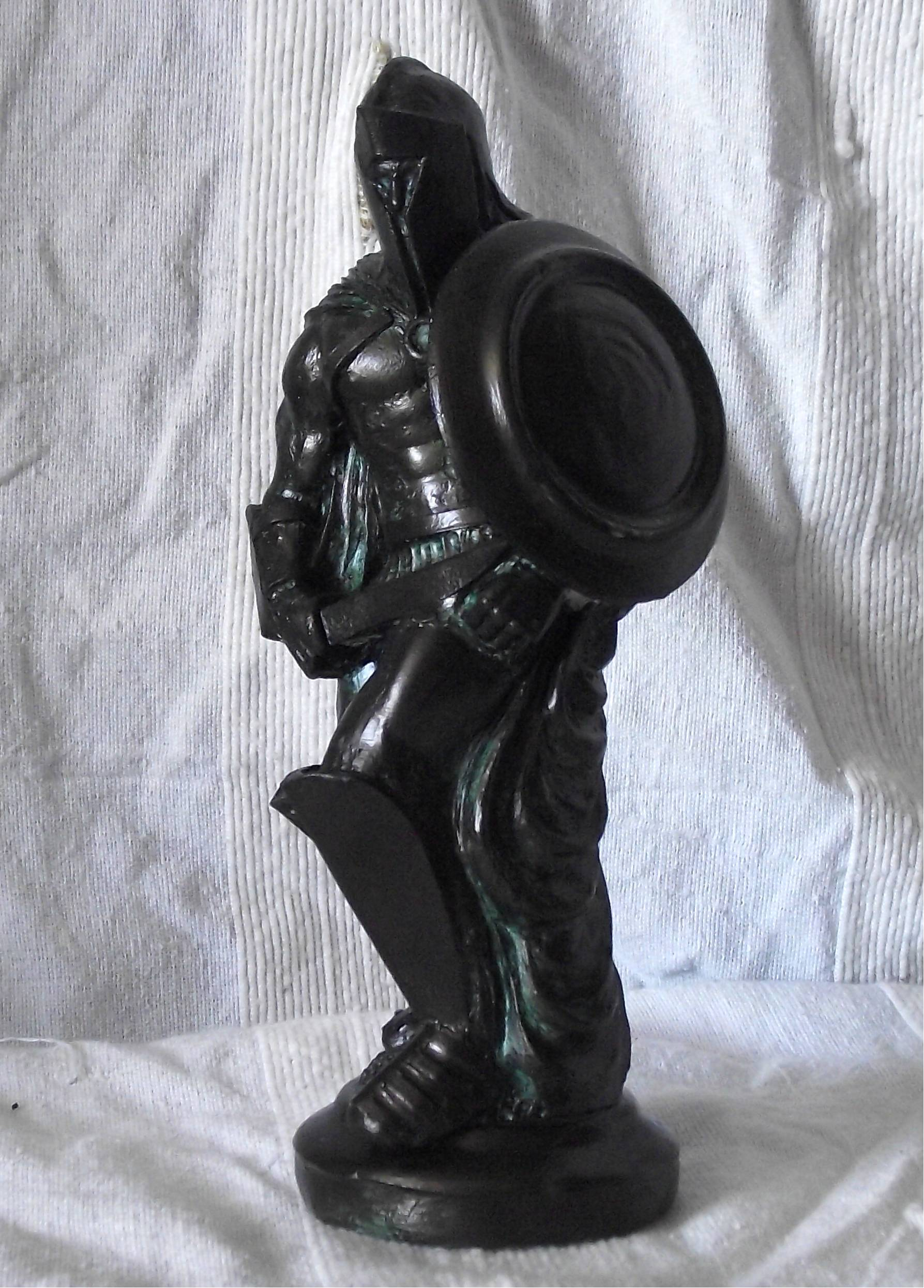 Cornish Pagan & Male Nude Art Sculpture created in Cornwall (UK) by British Artist Malcolm Lidbury